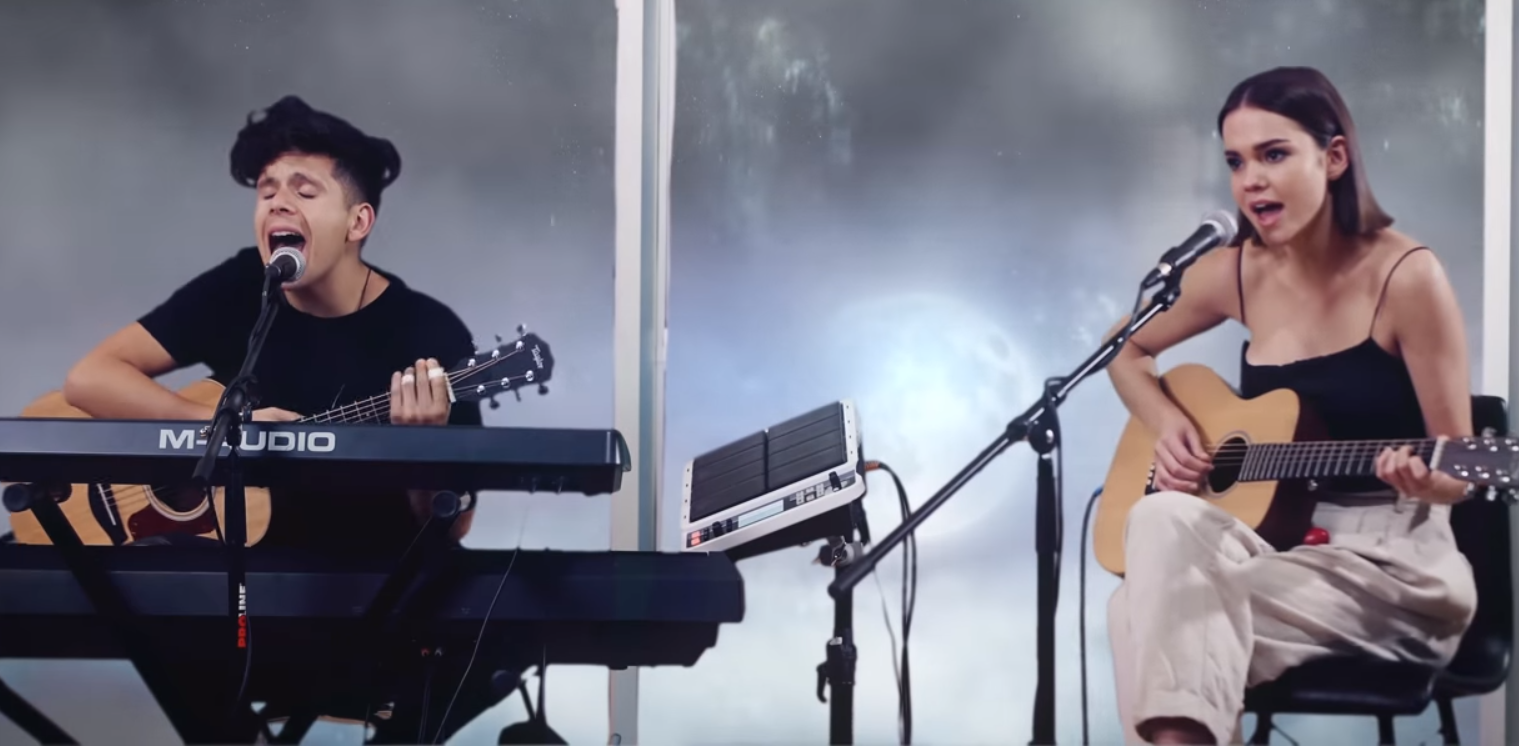 Rudy Mancuso and Maia Mitchell singing in music video in 2018